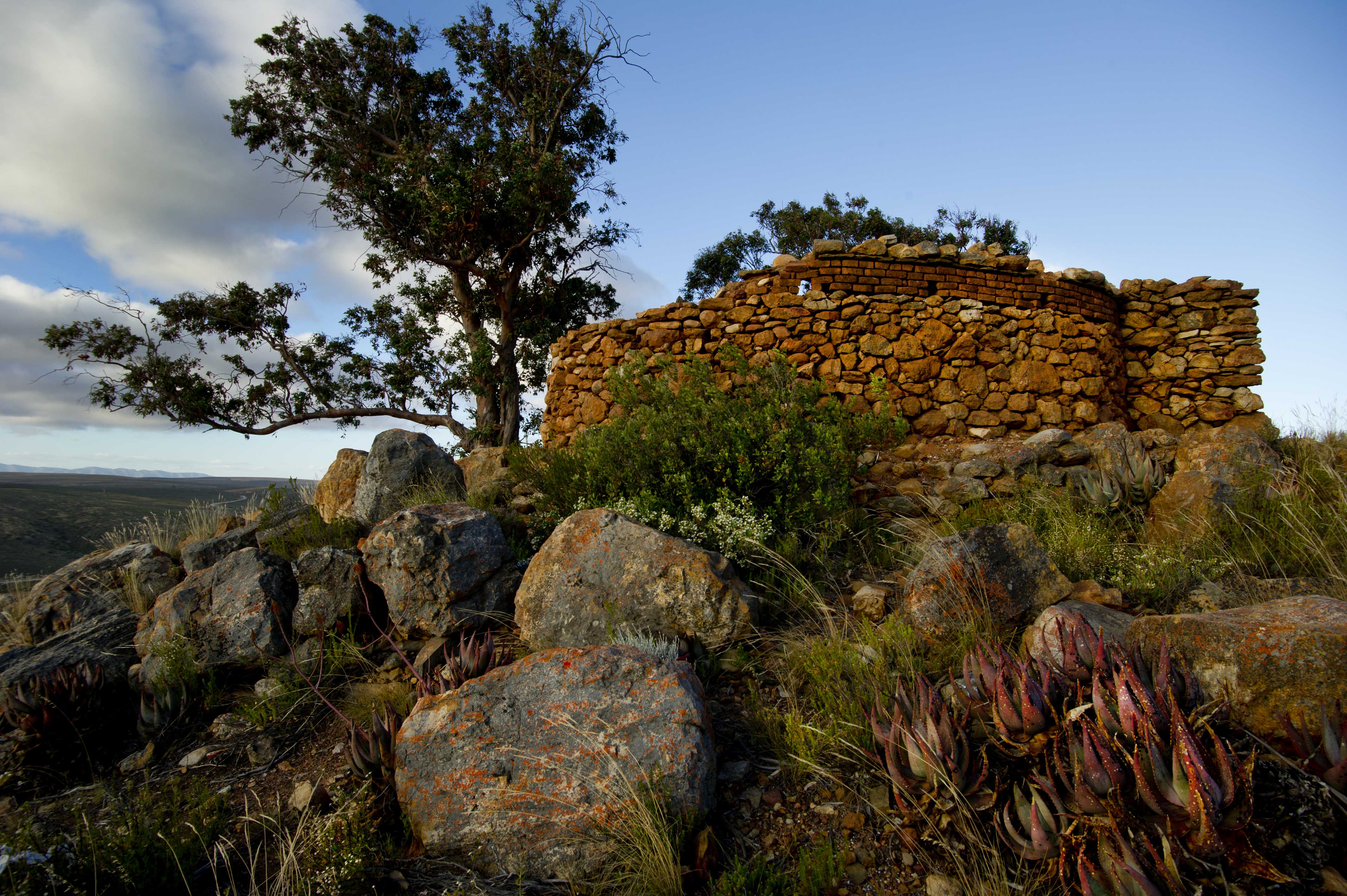 Uniondale British Fort This media shows a South African Protected Site with SAHRA file reference 9/2/096/0022.